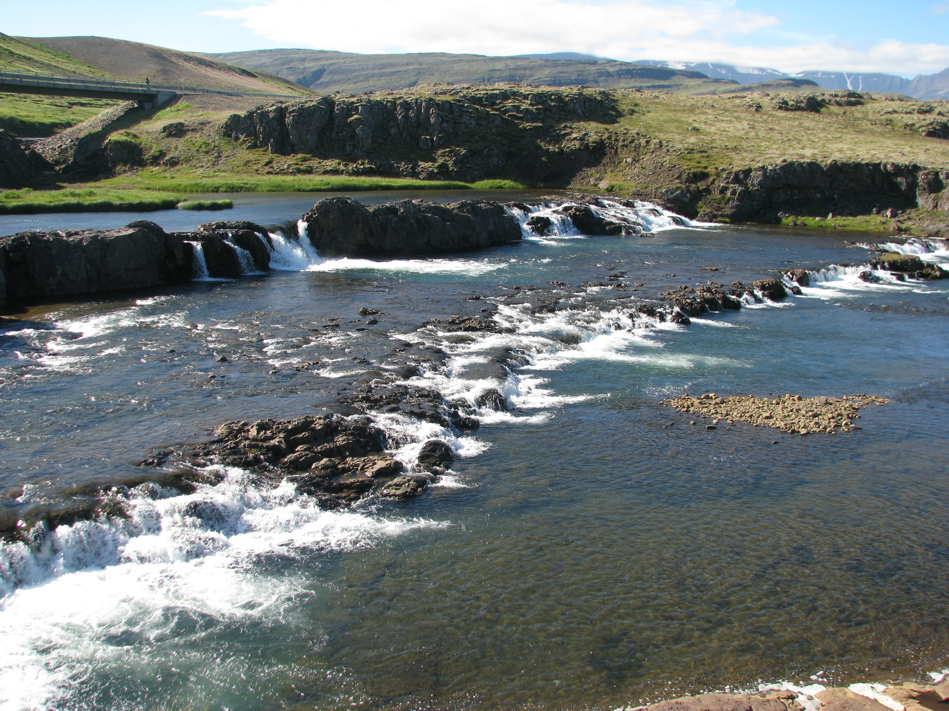 Tröllafossar, a numer of rapids in the Grímsá, a river in Iceland.